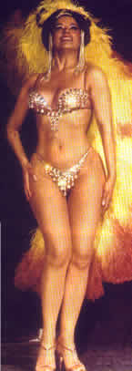 nelida roca